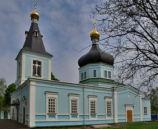 Church of Trinity in Rghishev, Kiev oblast, Ukraine